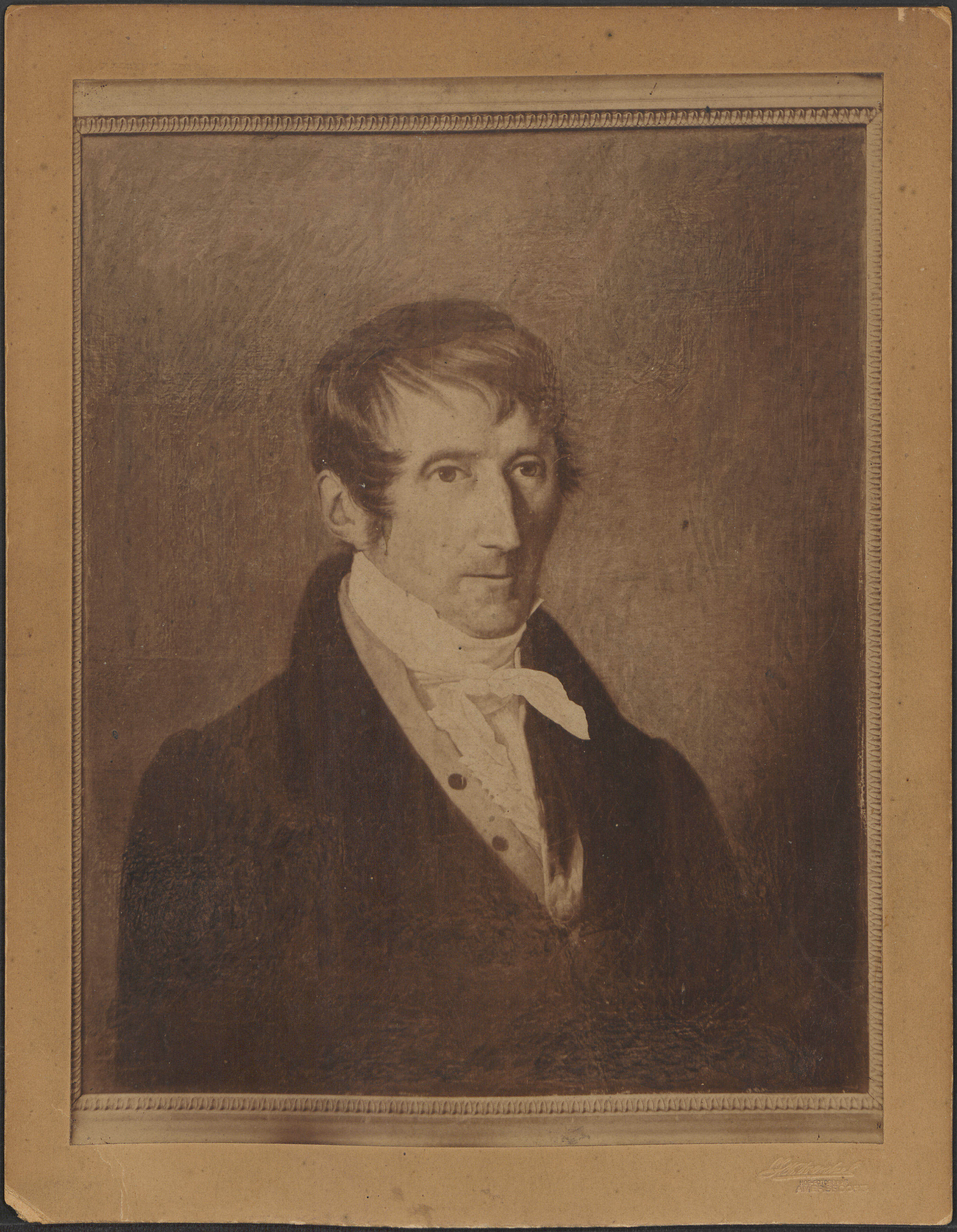 Willem Hendrik de Beaufort (1775-1829)